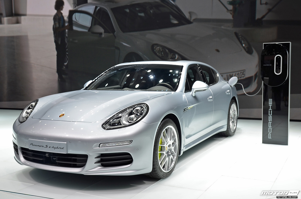 IAA Frankfurt 2013: Porsche Panamera S e-hybrid (Plug-in) / Photo: Raphael Jahn ______________________ Please feel free to use this image for FREE under the Creative Commons (CC) licence. However, if you use the image, pls set a backlink to and give credit as following: "Image: ". For highres images or any other inquiries pls contact mailto: . Thanks.